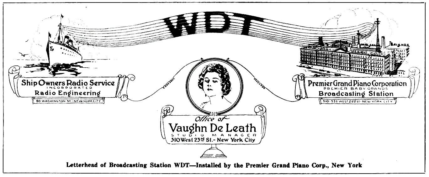 In 1923 singer Vaughn De Leath was appointed studio manager for radio station WDT in New York City